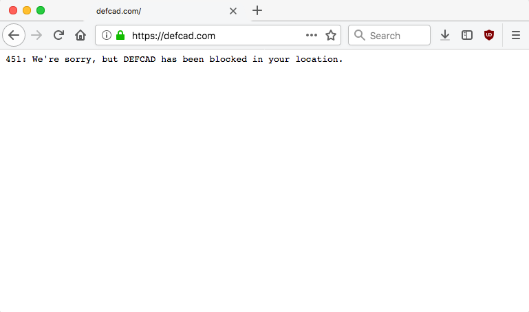 A 451 status code returned by DefCad website in Pennsylvania, July 30 2018.